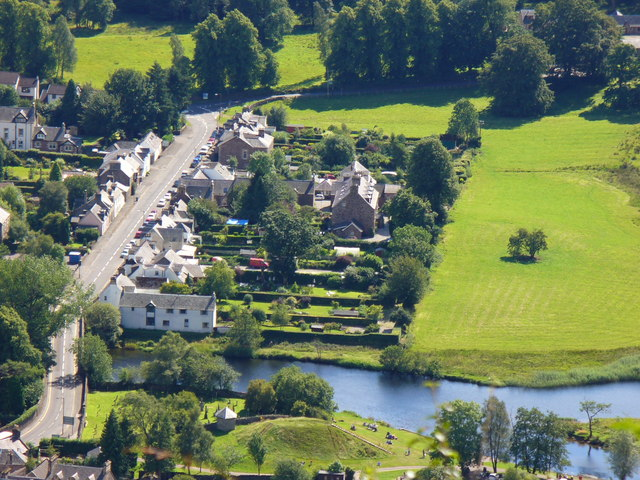 Bridgend from Callander Crags. Lying south of the bridge, this is the oldest part of Callander. The long and narrow burgage plots are seen running away at right angles from the street. The newer, planned gridiron, part of the village is north of the river ie bottom edge of the photograph. Also visible at this edge is the small hill, Tom na Kessog, which may have been built as a Norman motte.